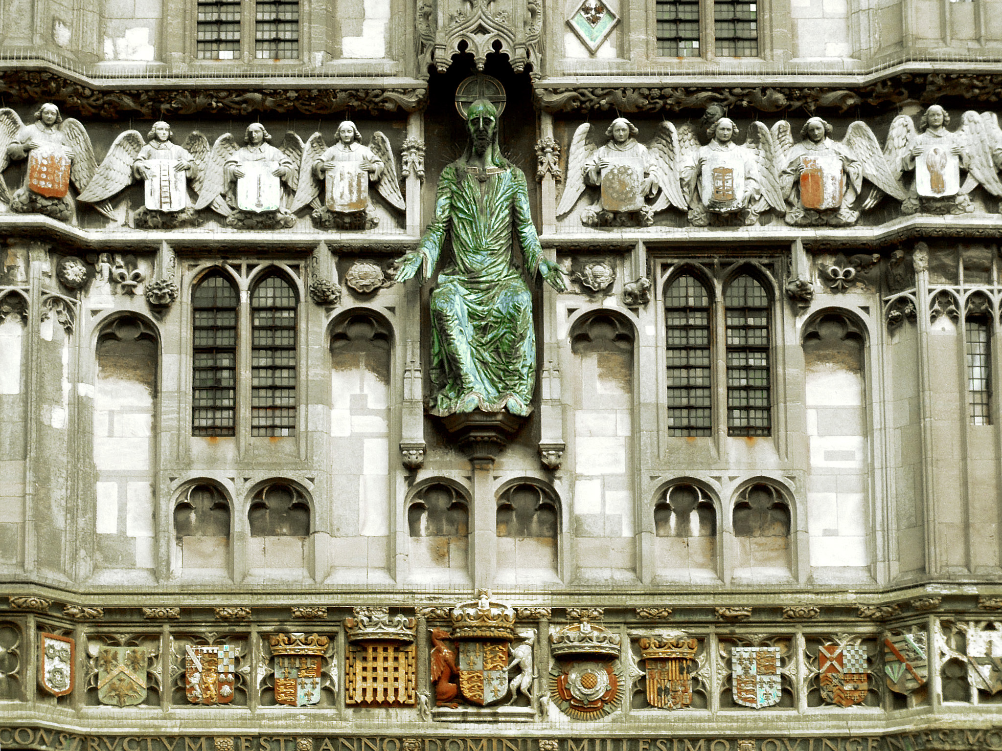 The Christ Church Gate; a detail. City of Canterbury, Kent, England, United Kingdom